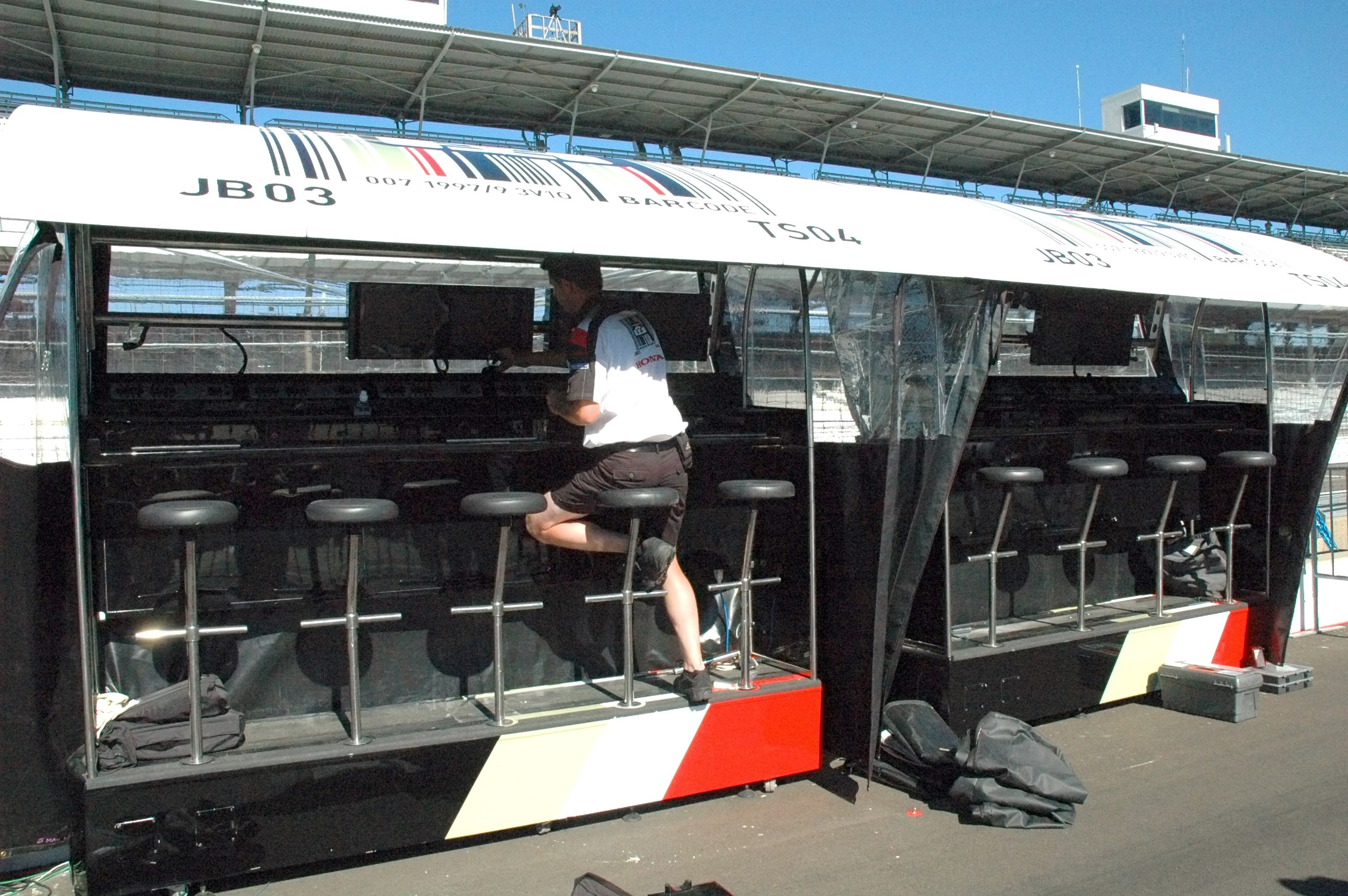 The British American Racing pitwall control center at the 2005 United States Grand Prix